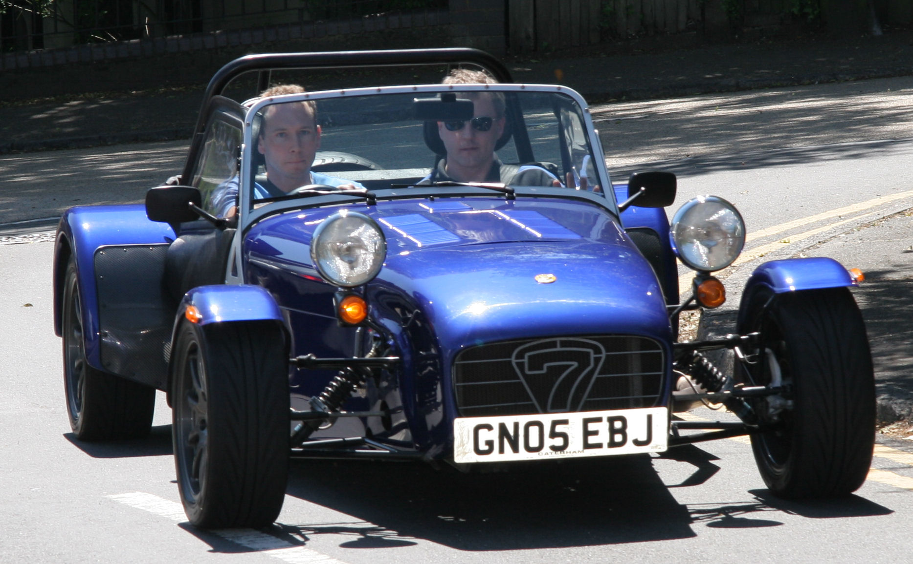 Caterham 7 Roadsport